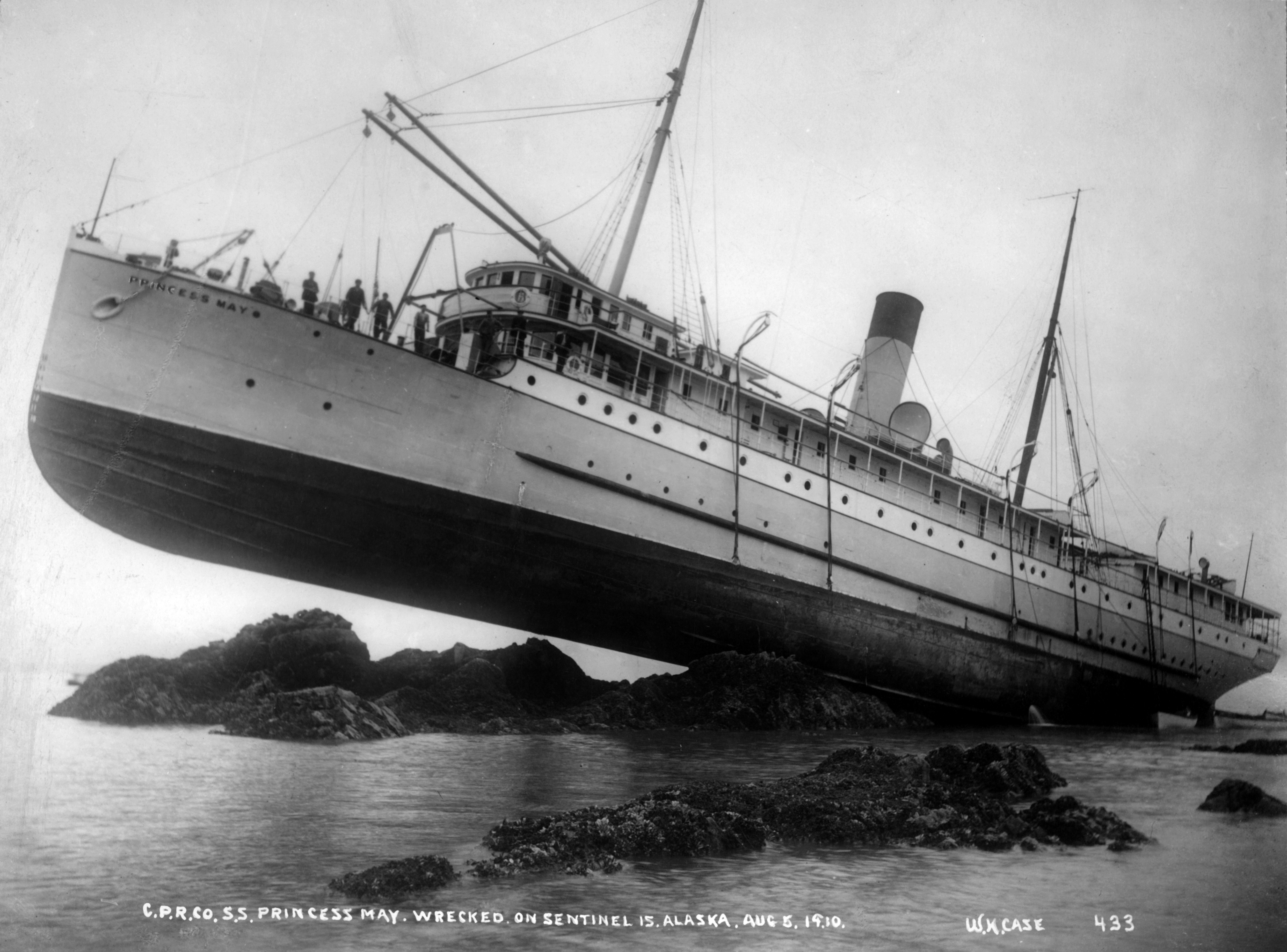 C.P.R. Co. S.S. Princess may wrecked on Sentinel Is., Alaska, August 5, 1910